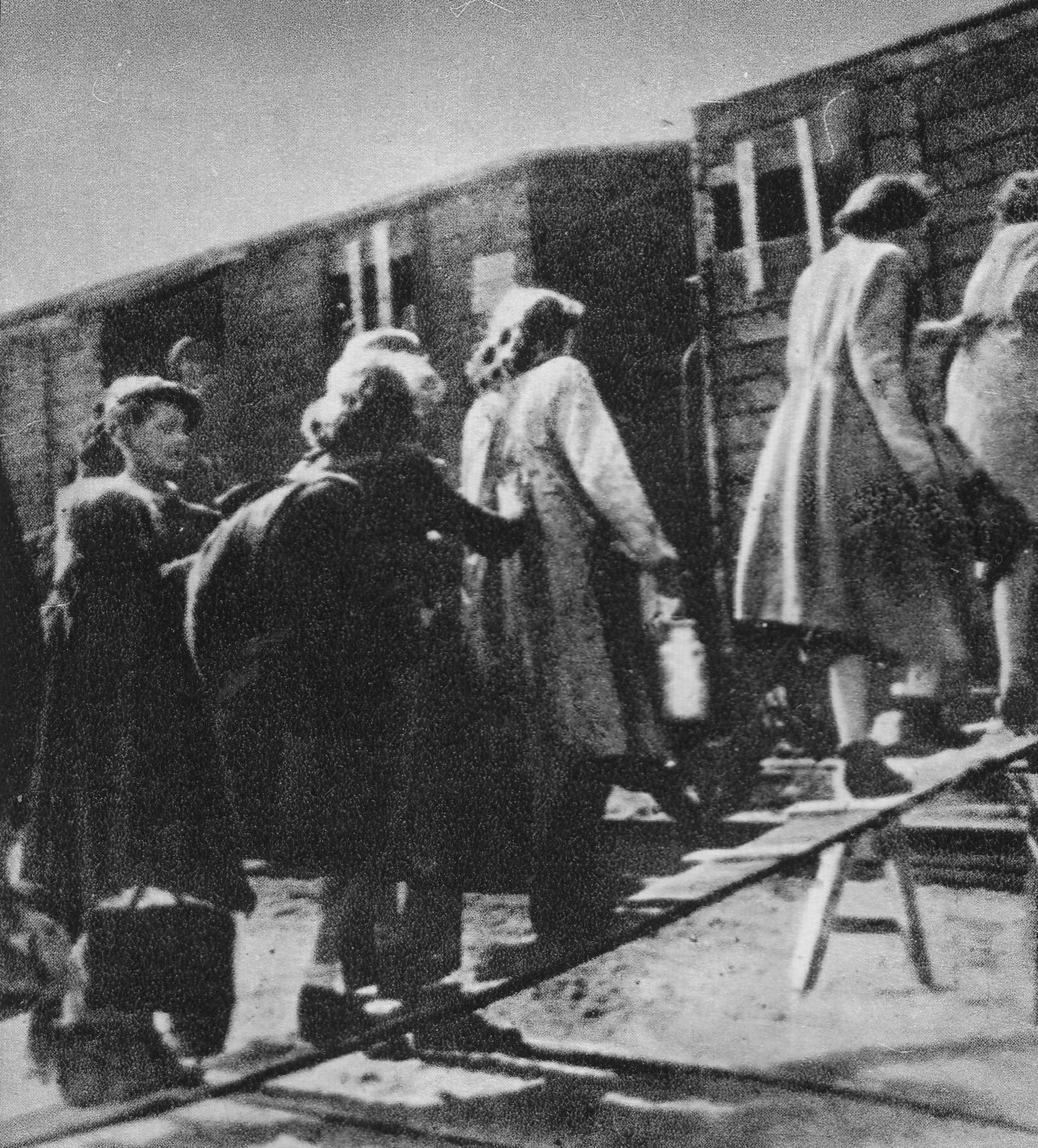 Loading Jews into a train at Umschlagplatz in Warsaw